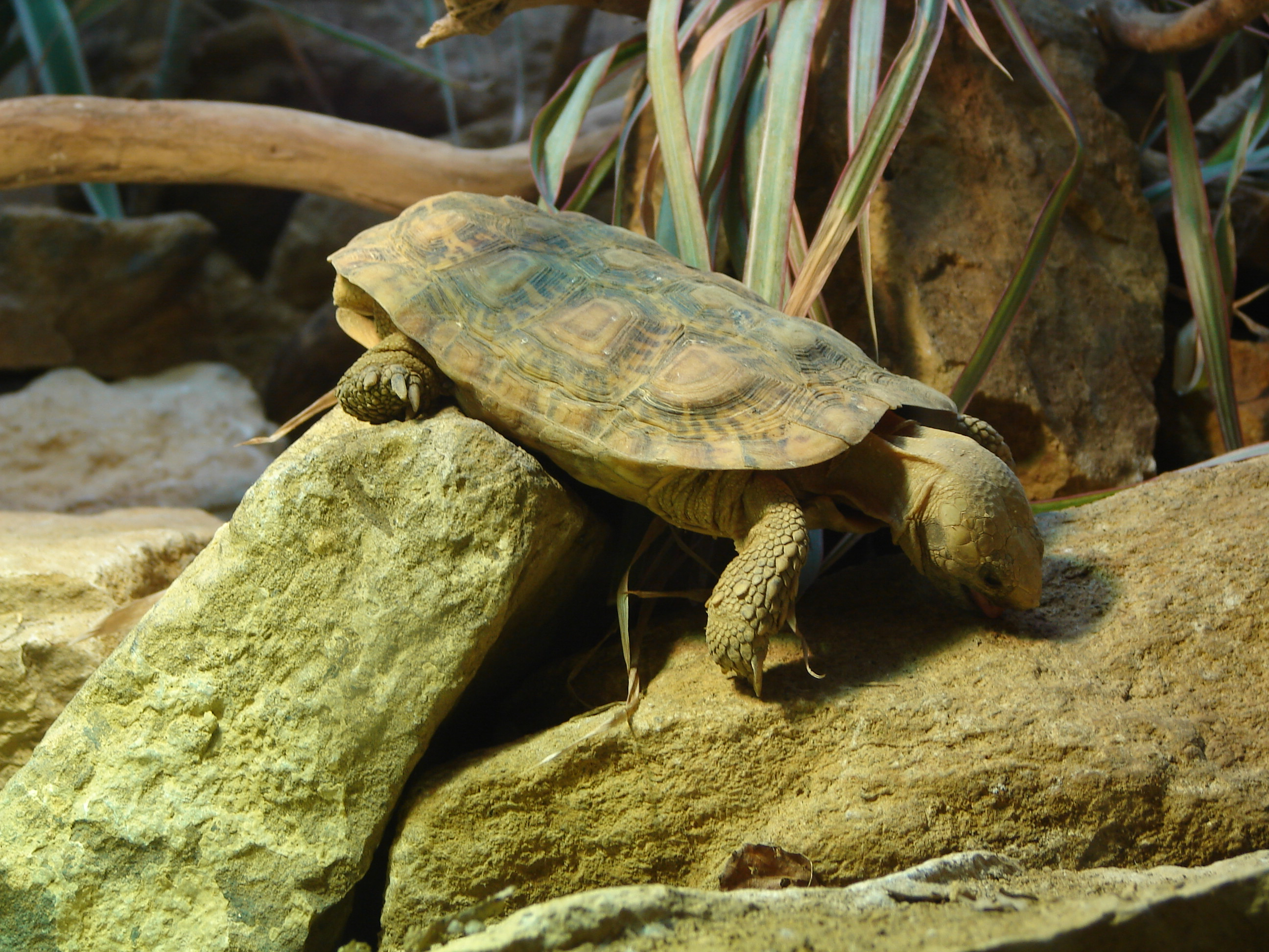 Images from London Zoo. Location: NW1 4RY